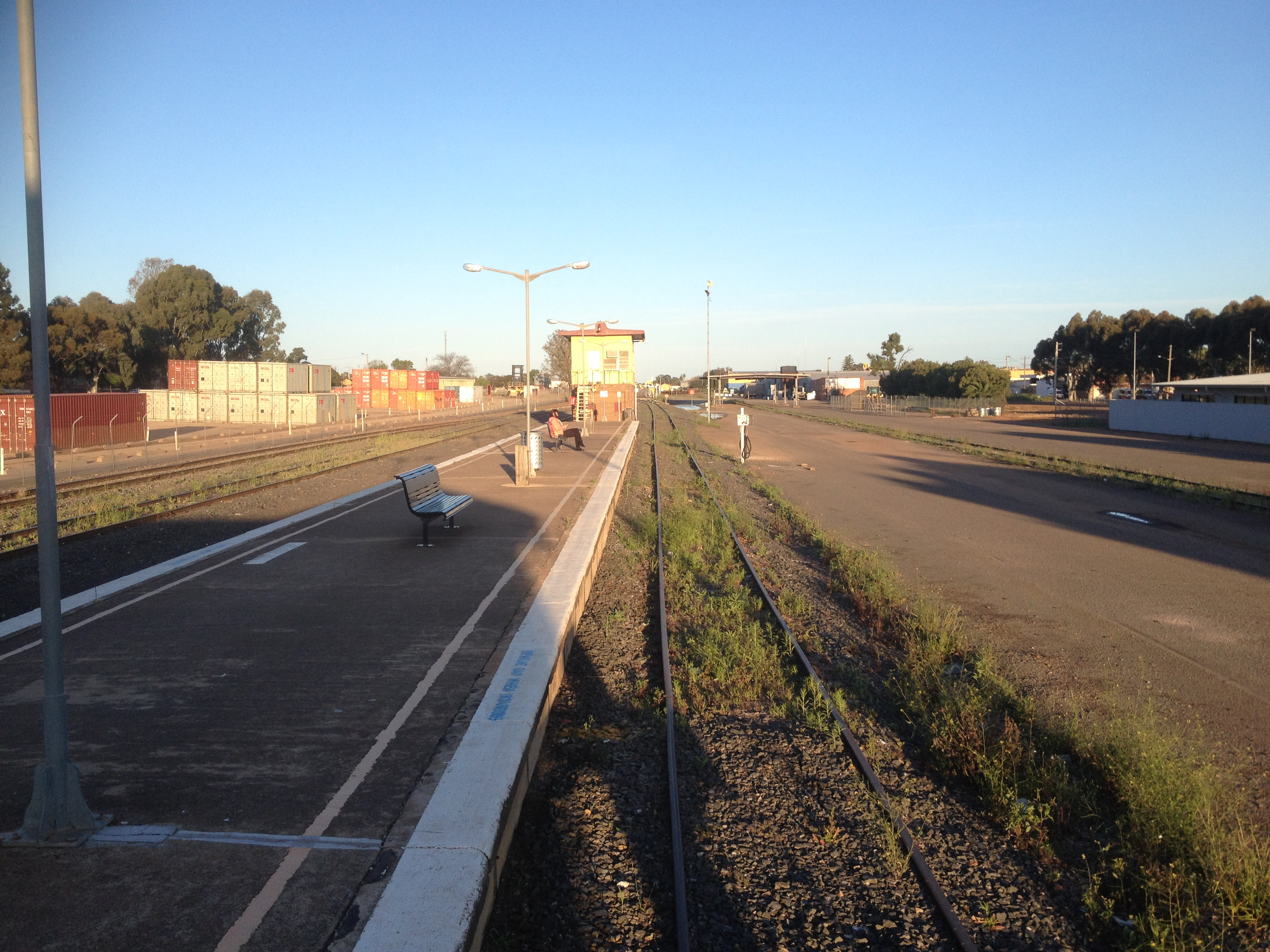 Looking towards Sydney